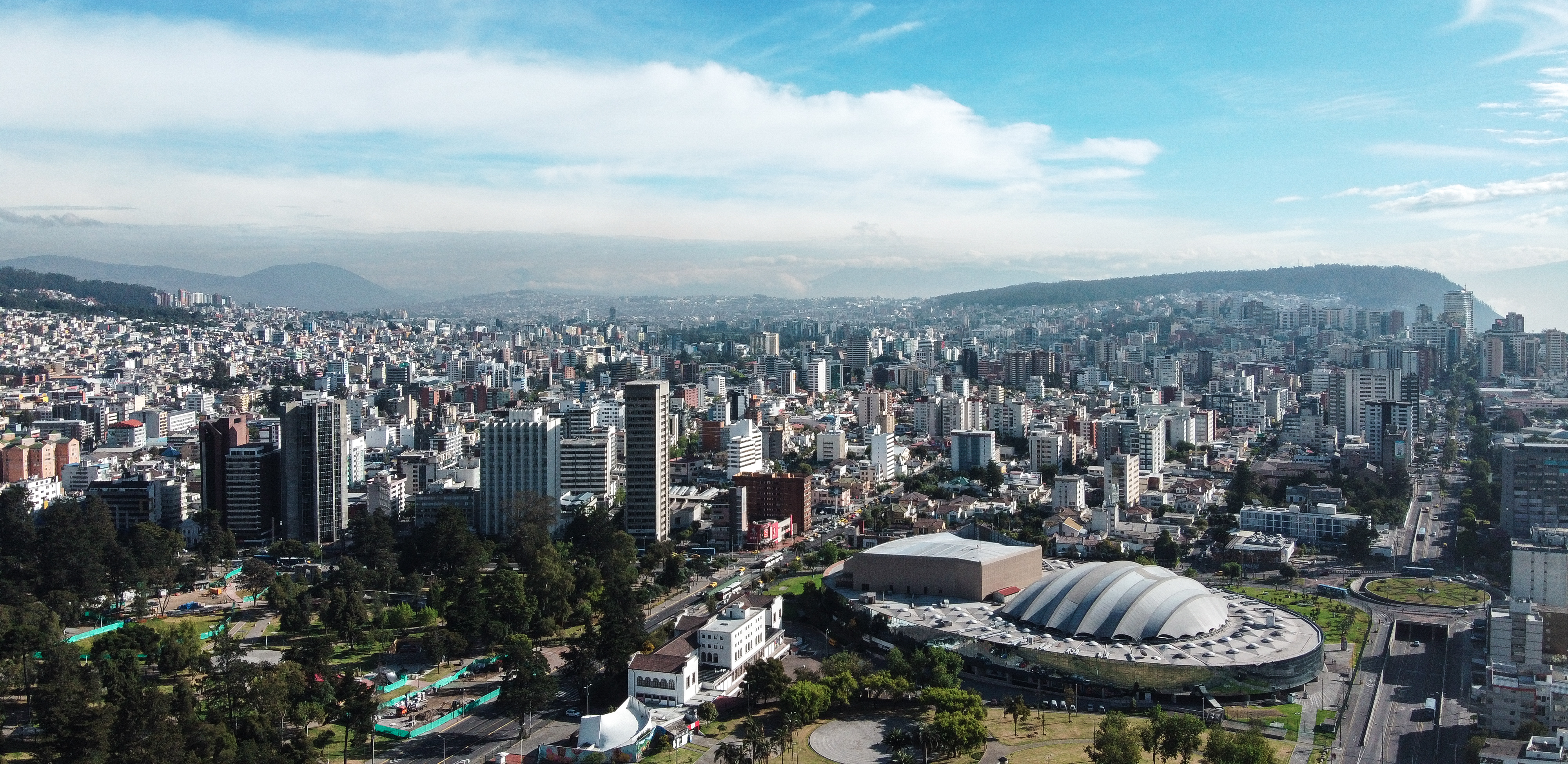 Quito, 20 de febrero 2020.- Fachada Asamblea Nacional. Fotos: Alexander Moya / Asamblea Nacional